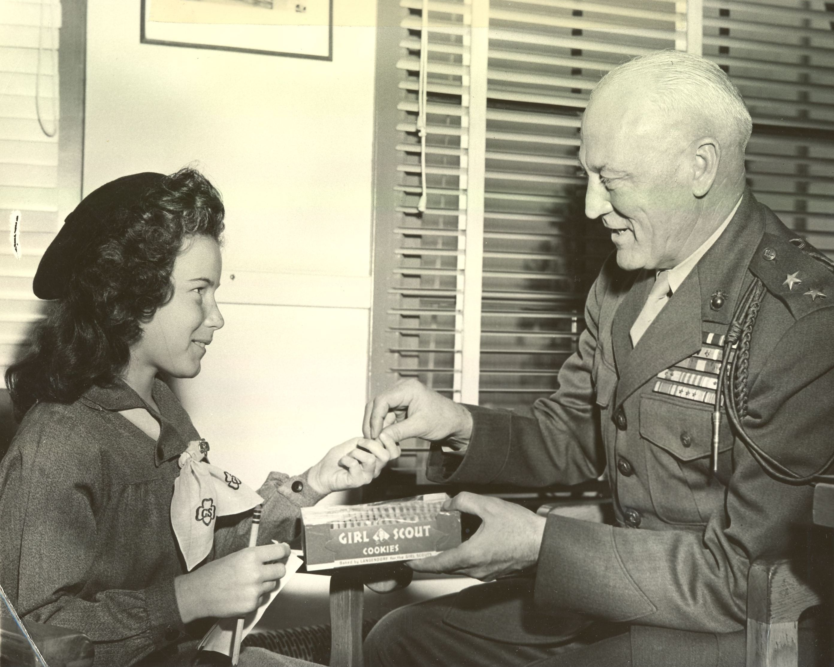 The caption reads: "Shirley Barton and General Erskine during Girl Scout cookie Sale." From the Graves Erskine Collection (COLL/3065) at the Marine Corps Archives and Special Collections OFFICIAL USMC PHOTOGRAPH